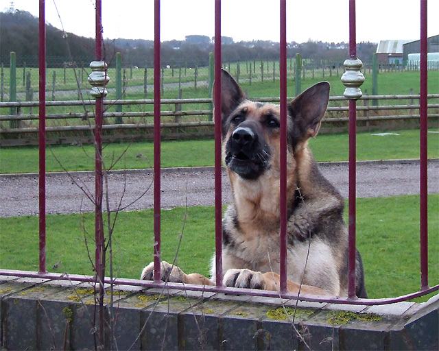 "Geograph, uh? Come in; make my day!!" There were warnings on the gate, and two dogs "greeted" me with great energy, so I decided not to drop in for coffee that morning.